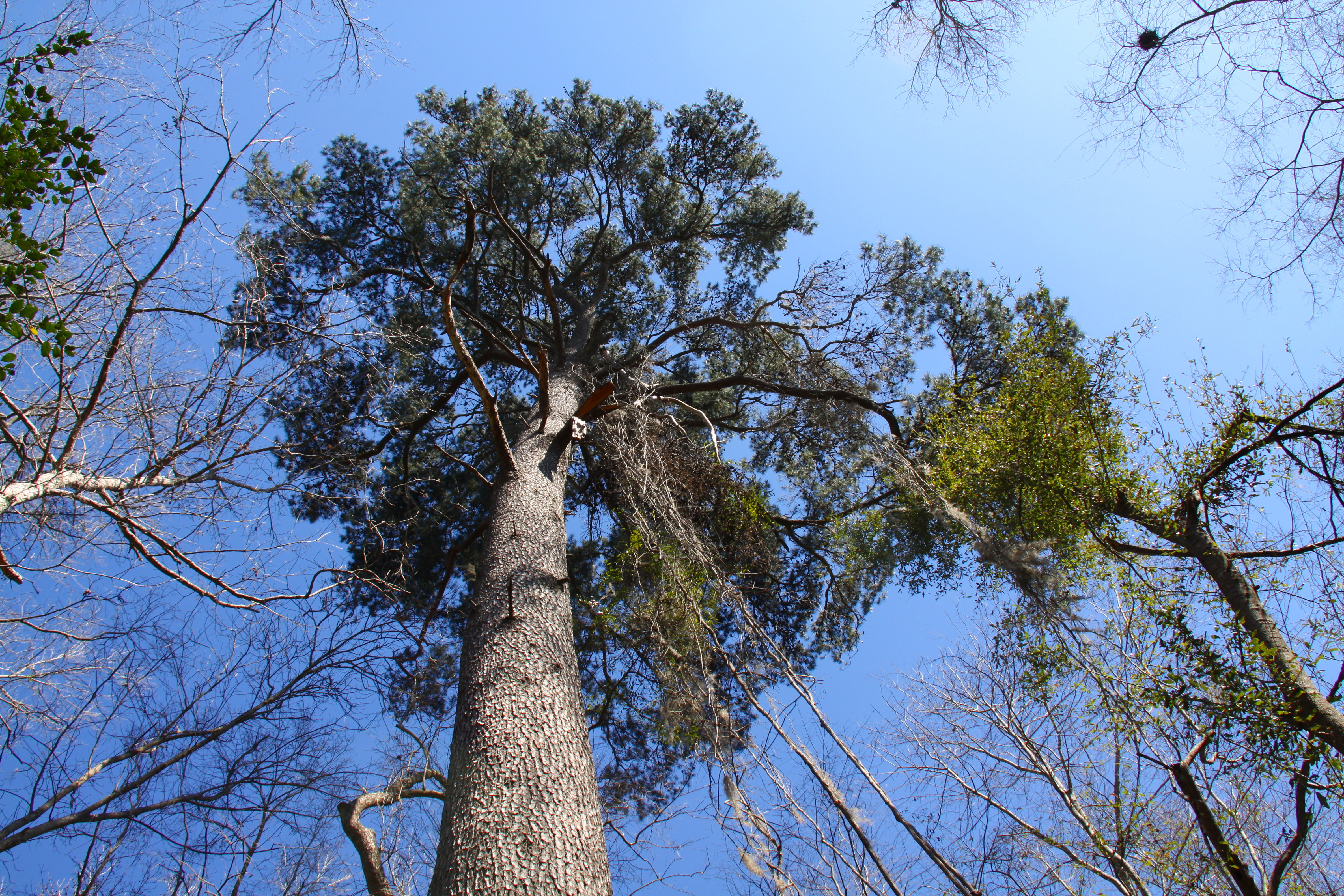 Large Pinus glabra, Anderson Springs Trail, Twin Rivers State Forest, Live Oak, Florida.